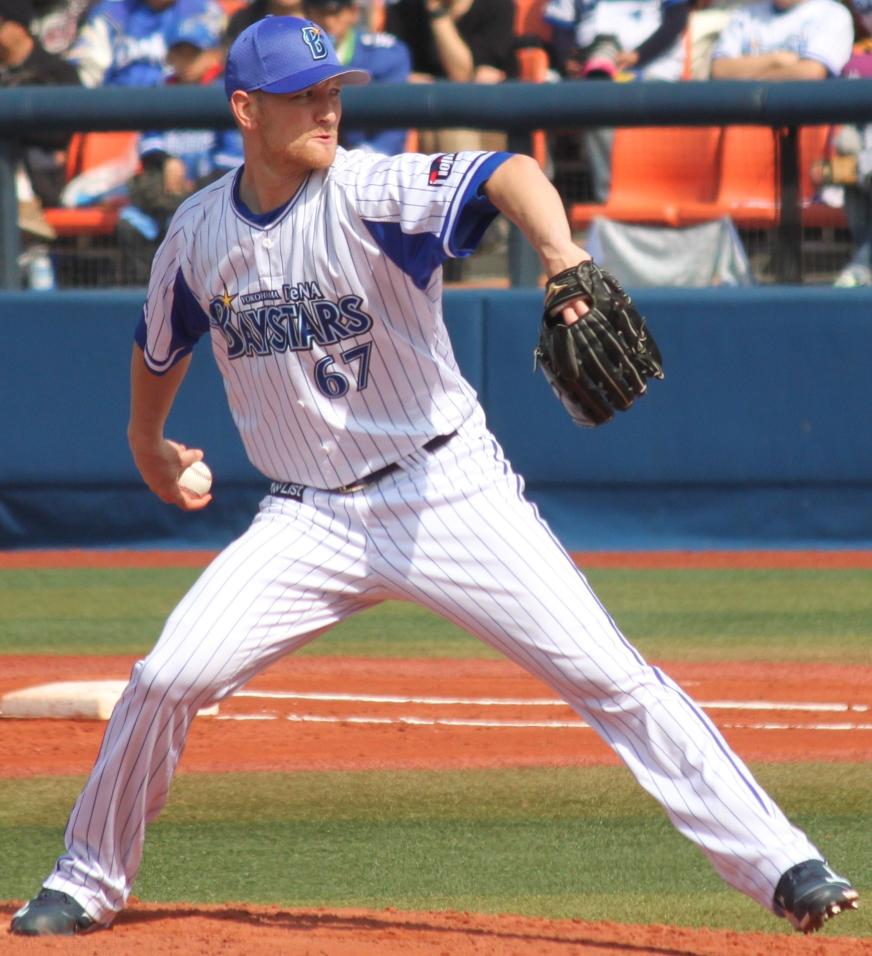 Zach Petrick, pitcher of the Yokohama DeNA BayStars, at Yokohama Stadium